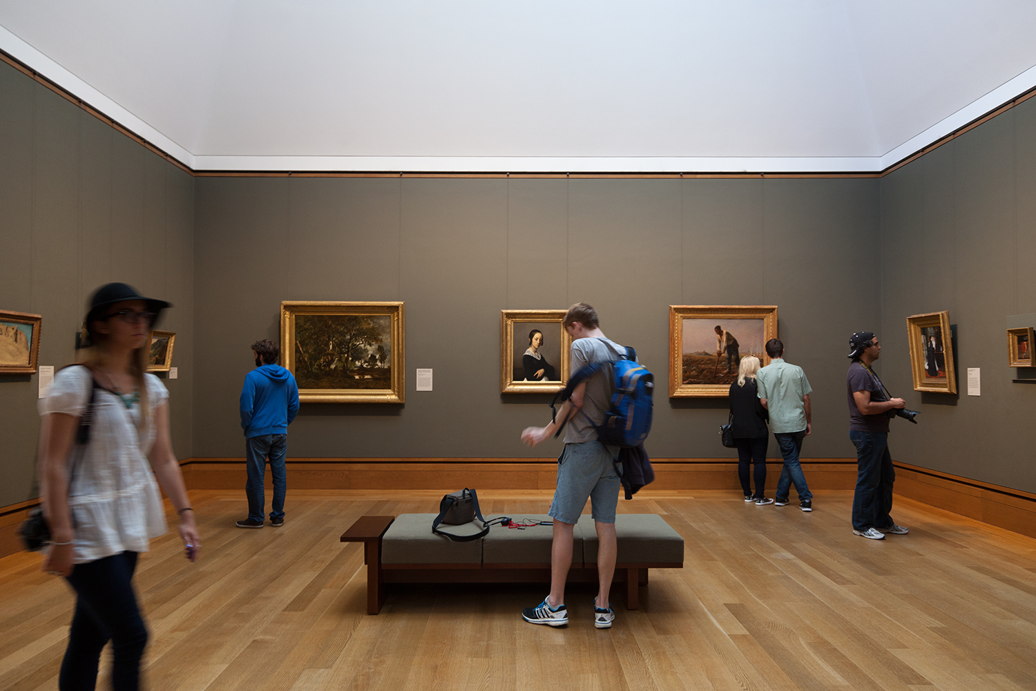 Art gallery in the J. Paul Getty Museum in Los Angeles